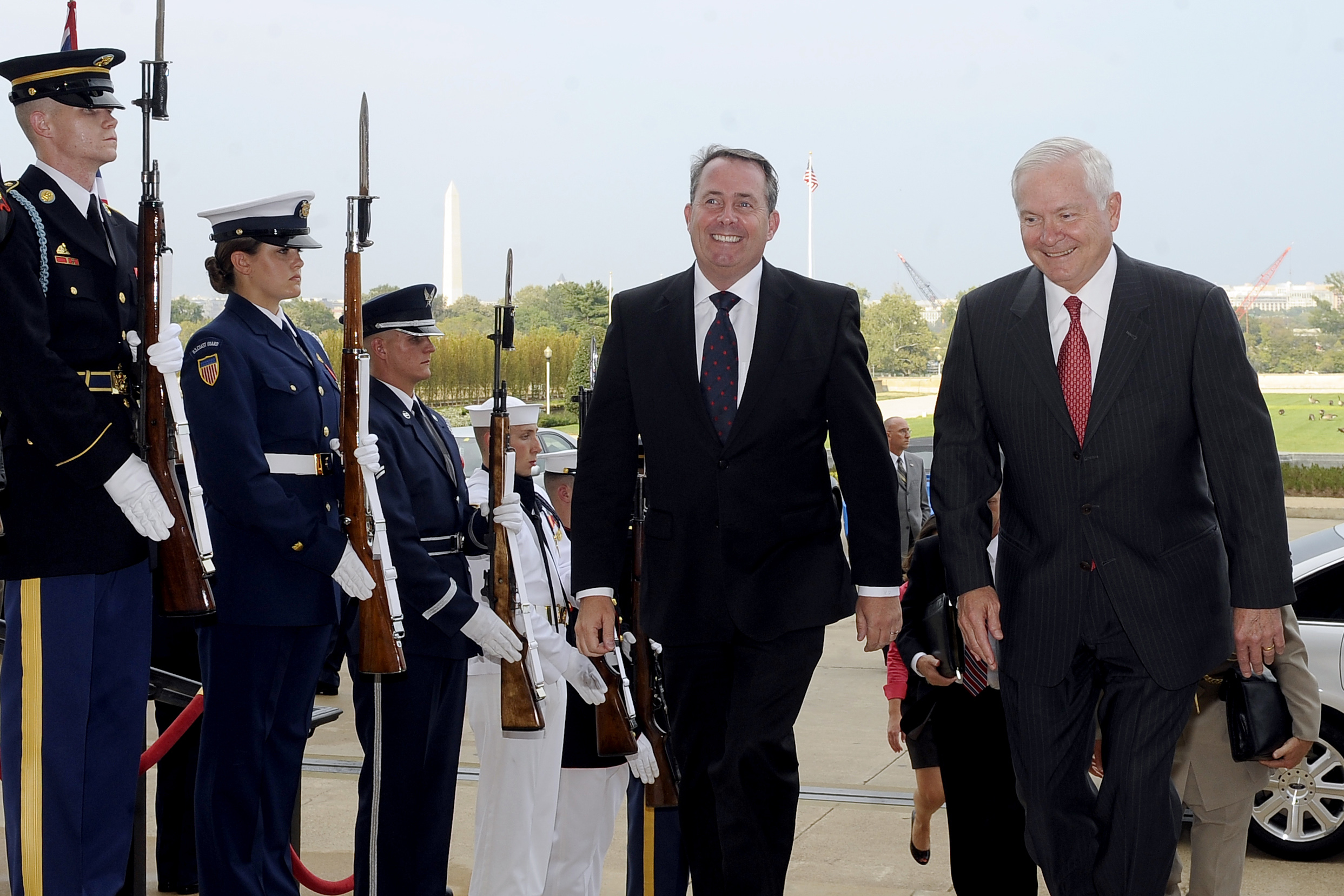 Secretary of Defense Robert M. Gates escorts British Defense Minister Liam Fox through an honor cordon and into the Pentagon on Sept. 22, 2010.